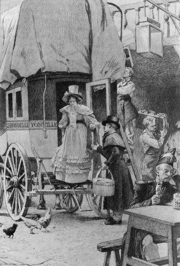 Illustration of Madame Bovary by Gustave Flaubert (1821-1880)